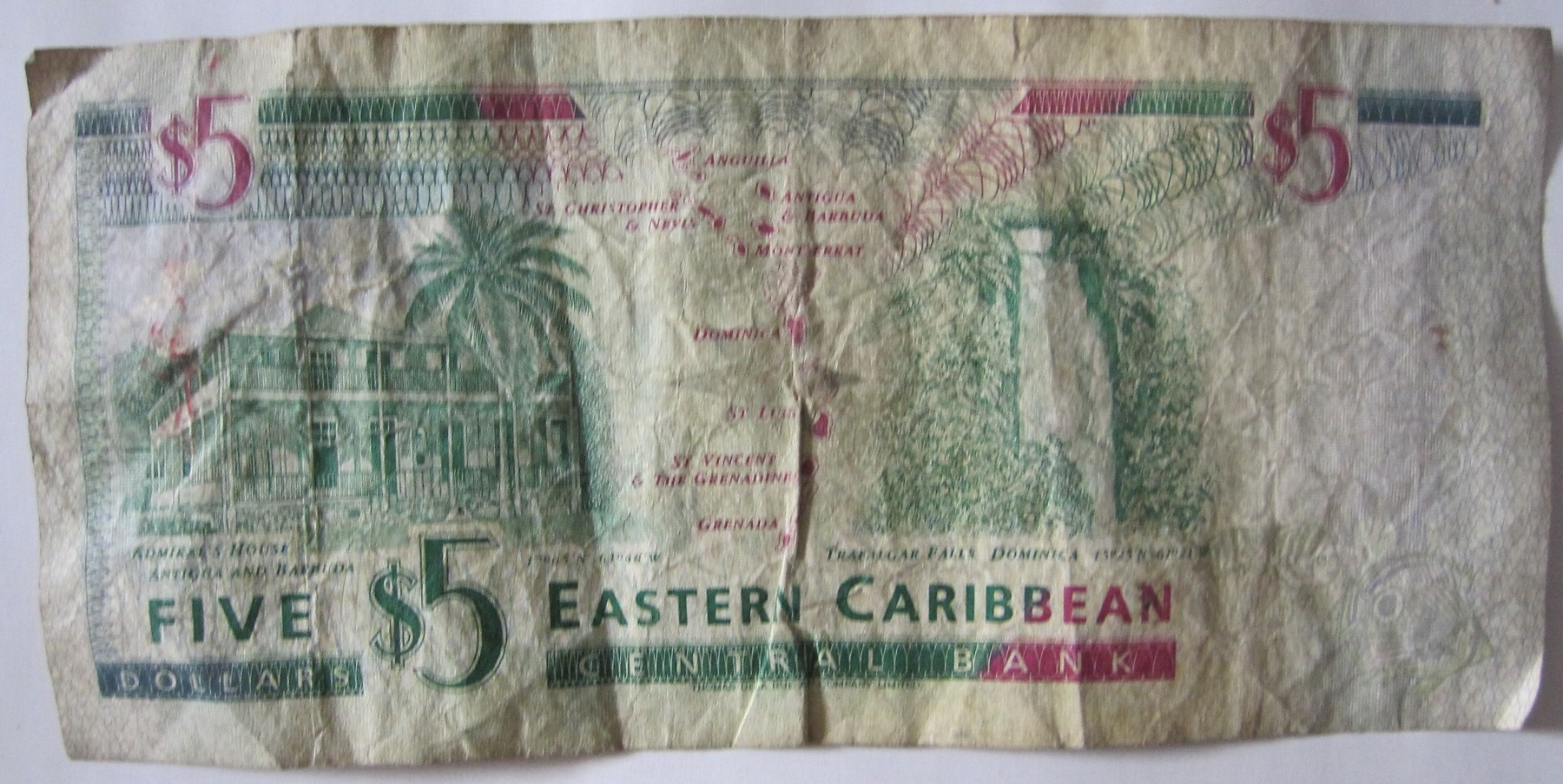 Eastern Caribbean Dollar Banknote - front